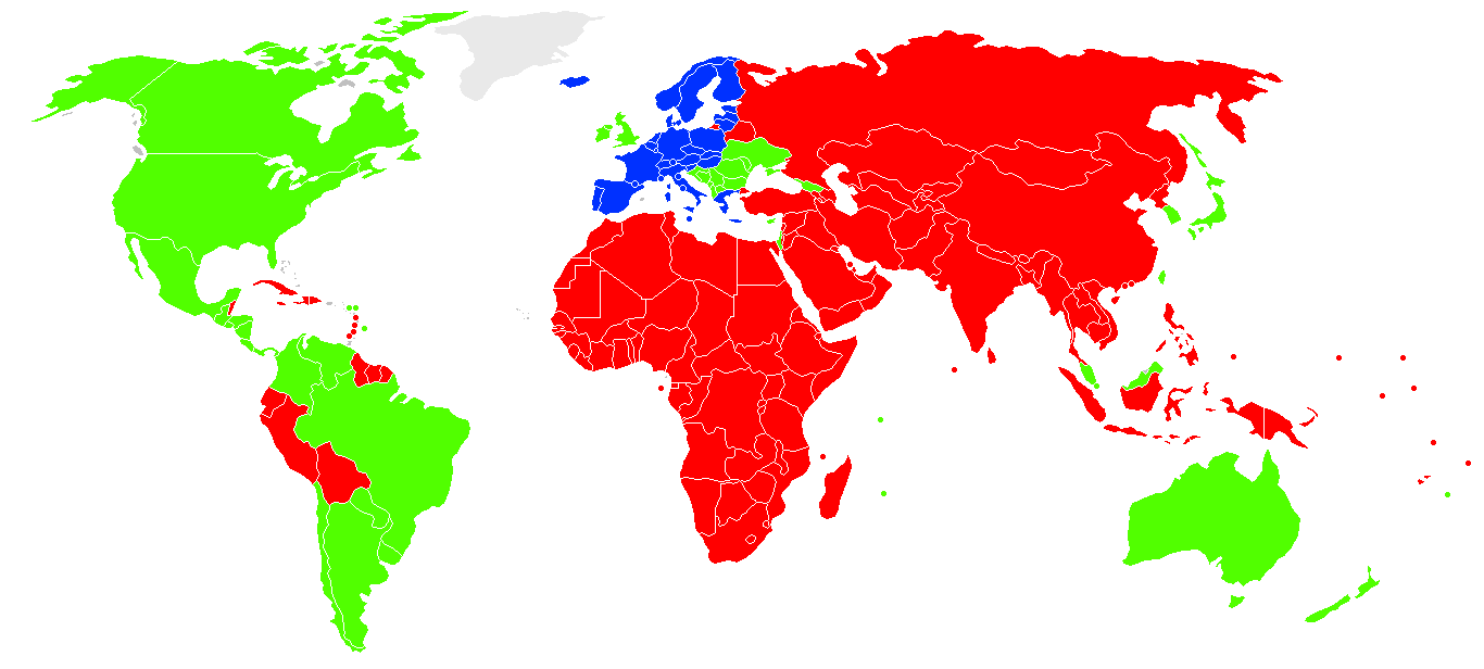 Passports which doesn't require visa to enter Schengen Area